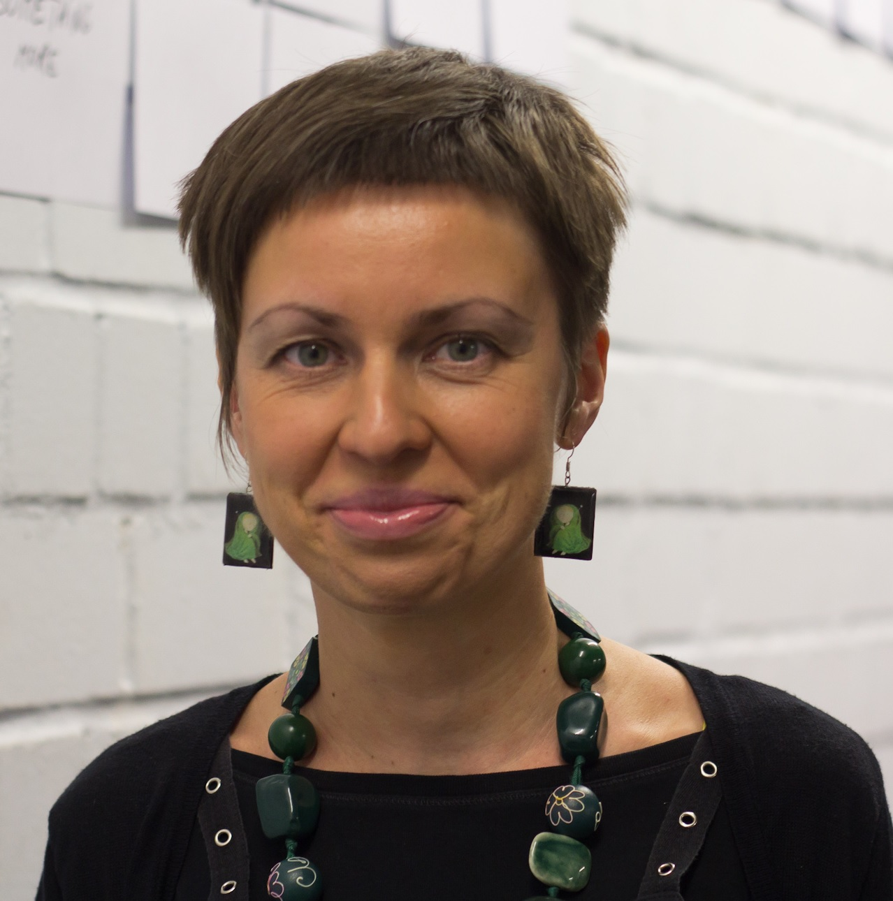 Ukrainian writer Natalka Sniadanko in Köln, 2014